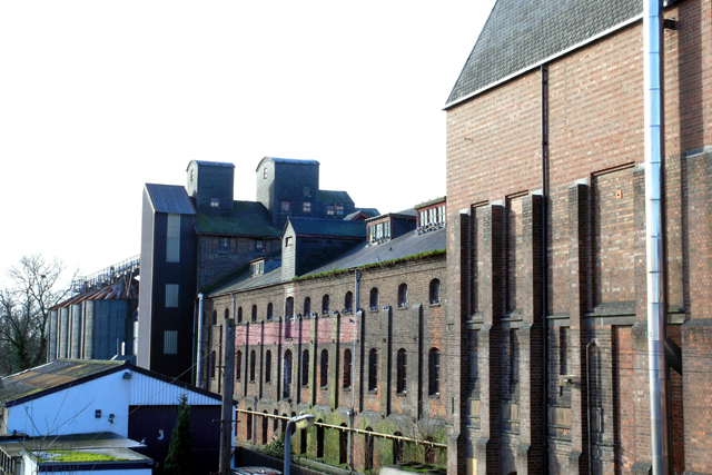 Beeston Maltings Closed around 2001, the site is now scheduled for housing development